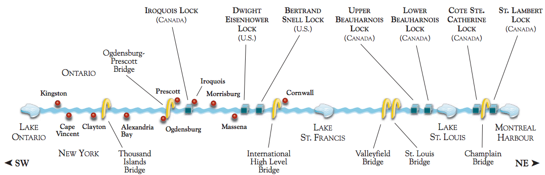 St. Lawrence Seaway locks and crossings Note that this chart is incomplete. These are the bridges crossing the Seaway: Pont Jacques Cartier, north of the Saint Lambert Lock Railway bridges at both ends of the Saint Lambert Lock Pont Champlain (shown) Bascule bridge at the Sainte Catherine Lock Pont Honore-Mercier, west of the Sainte Catherine Lock Pont CP, a railway bridge just west of Pont Honore-Mercier A railway bridge at the south end of the Upper Beauharnois Lock Pont Saint Louis (shown) Valleyfield Bridge (shown) International Bridge (shown) A highway tunnel just west of the Eisenhower Lock A highway bridge just east of the Iroquois Lock Ogdensburg-Prescott Bridge (shown) Thousand Islands Bridge (shown)